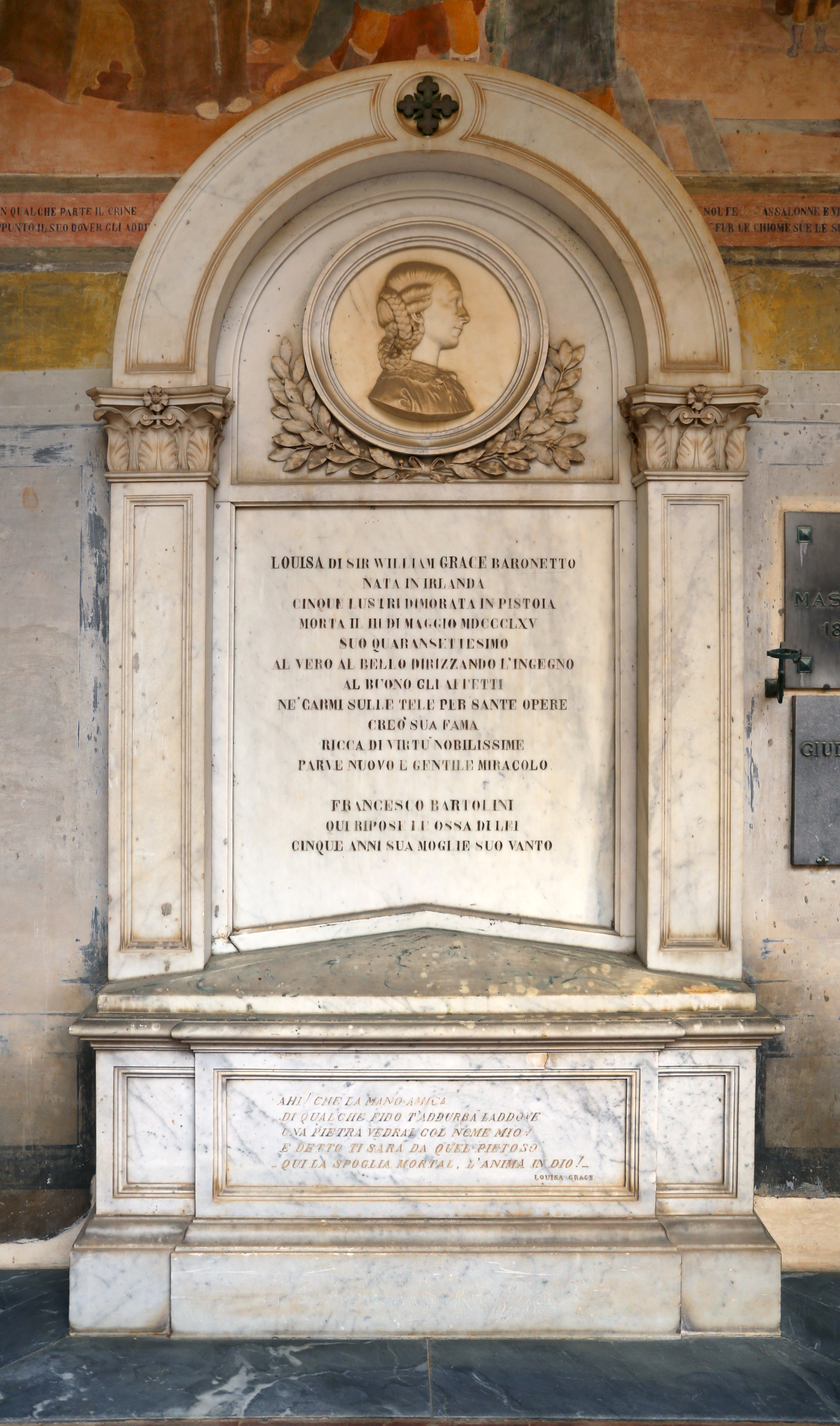 Giaccherino convent - Great cloister